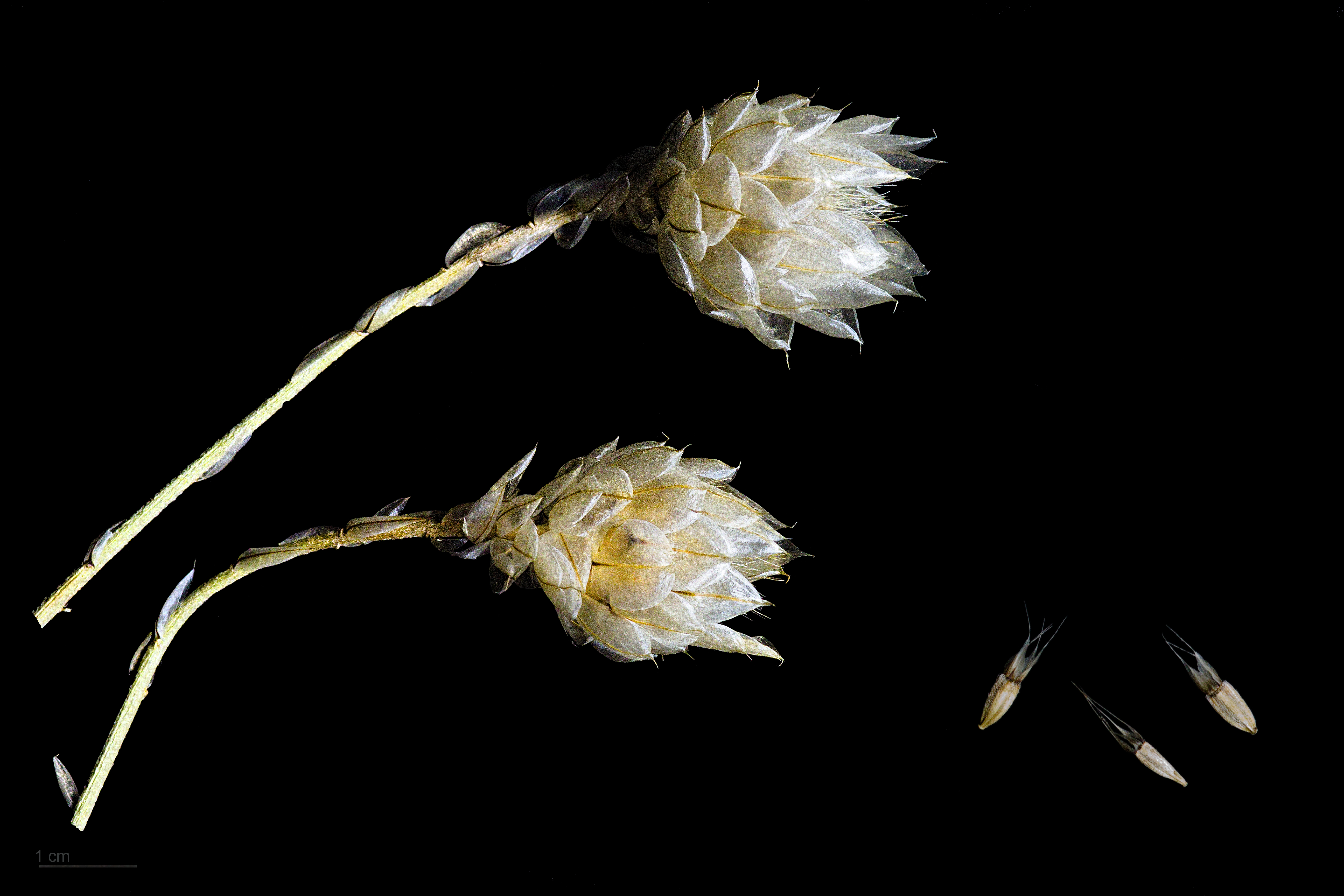 Cupid's dart, blue cupidone , fruits and seeds